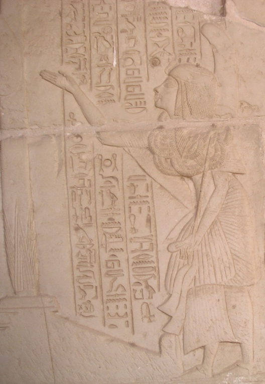 Relief of Horemheb's tomb - 18th dynasty of Egypt - Saqqara